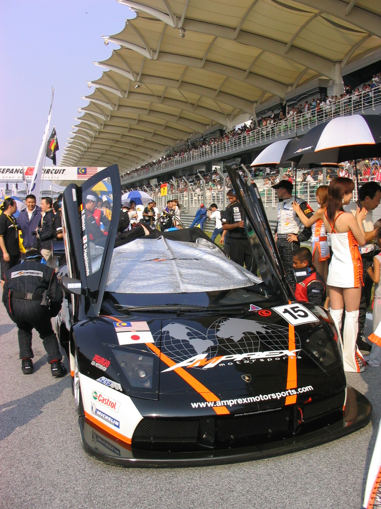 Amprex Motorsport's Lamborghini Murcielago R-GT on the grid for Japan GT race at Sepang.